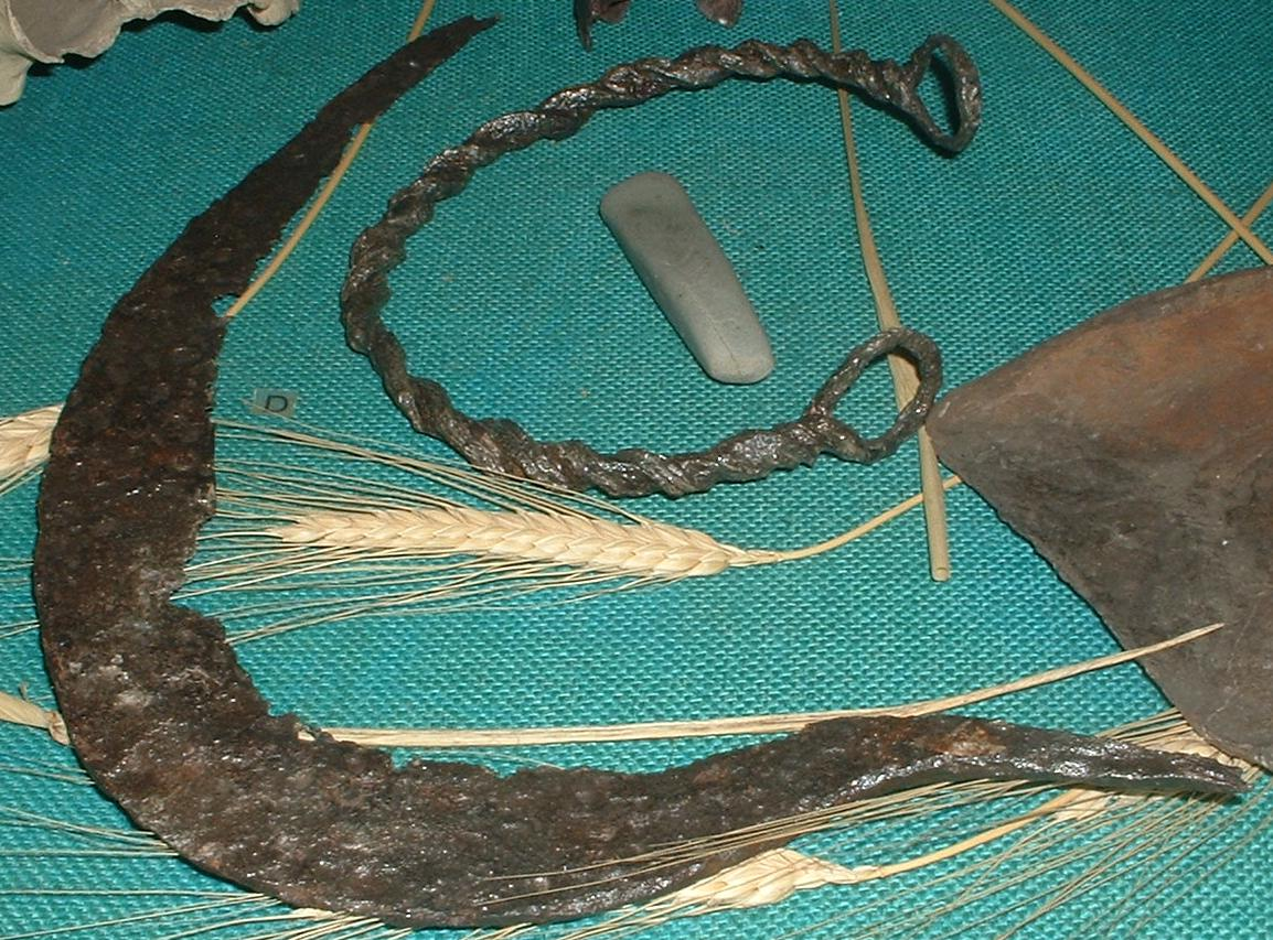 Iron sickle, adze and neck torc found with a burial on Ham Hill. Photograph was taken in the Somerset County Museum in Taunton on 29-Oct-05.